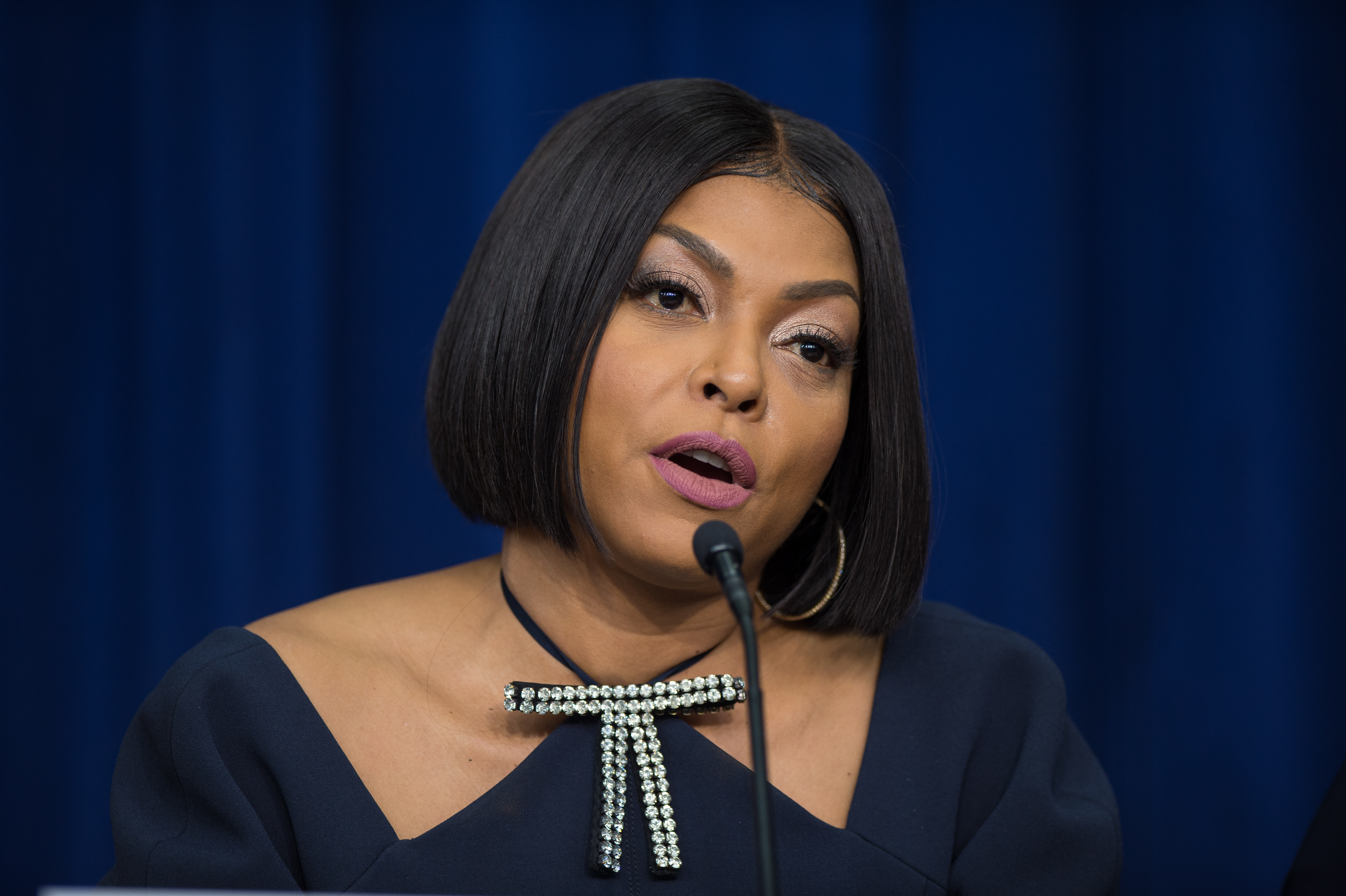 American actress and singer Taraji P. Henson speaks on a panel after a screening of the film “Hidden Figures” at the White House, Thursday, Dec. 15, 2016 in Washington. The film is based on the book of the same title, by Margot Lee Shetterly, and chronicles the lives of Katherine Johnson, Dorothy Vaughan and Mary Jackson -- African-American women working at NASA as “human computers,” who were critical to the success of John Glenn’s Friendship 7 mission in 1962.